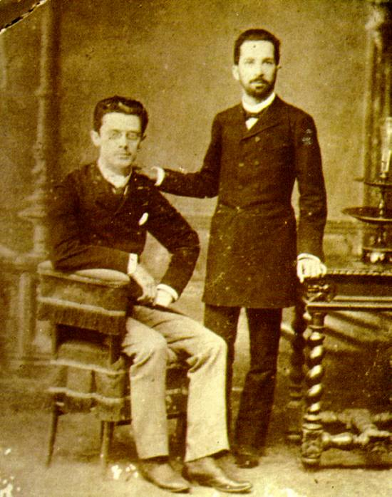 Valentim Magalhães (1859-1903) and Silva Jardim (1860-1891), Brazilian writers